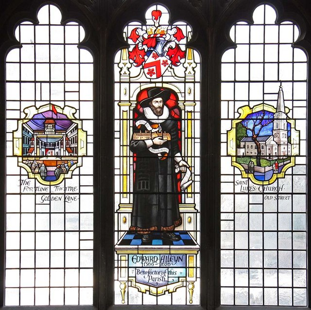 St Giles, Cripplegate, London EC2 - Window, near to London, City of London, Great Britain. Depicting Edward Alleyn